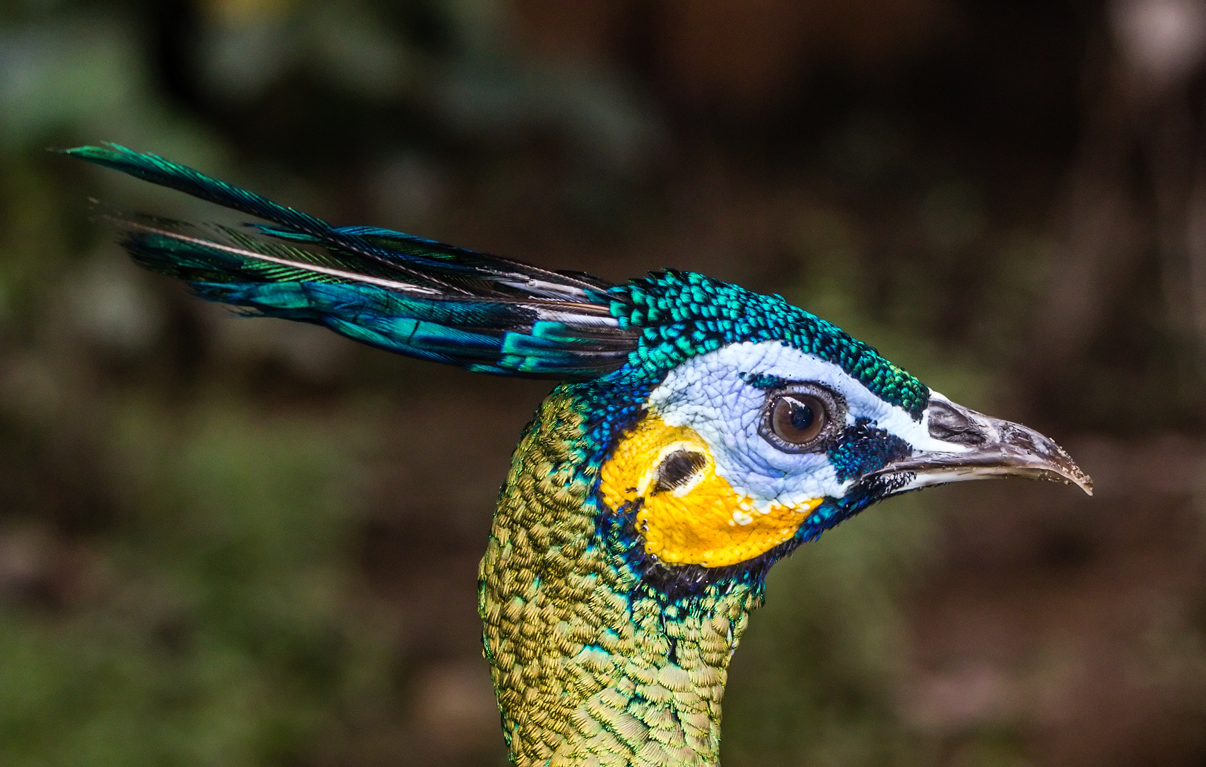 Portrait of green peafowl (Pavo muticus), Gembira Loka Zoo, Yogyakarta, 2015-03-15